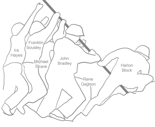 Outline of the figures at the flag raising on Iwo Jima